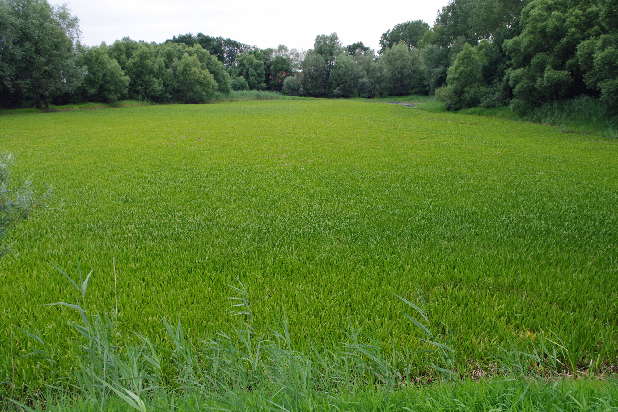 Mass occurence of the plant Water soldier (Stratiotes aloides) in a 10,000 m² pond in the Elbe valley.